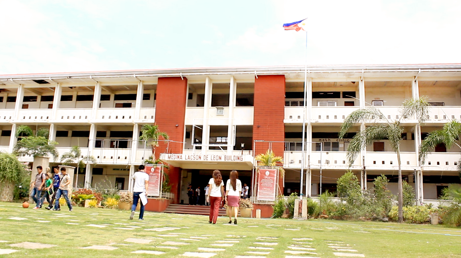 Medina Lacson Building in BPSU Main Campus